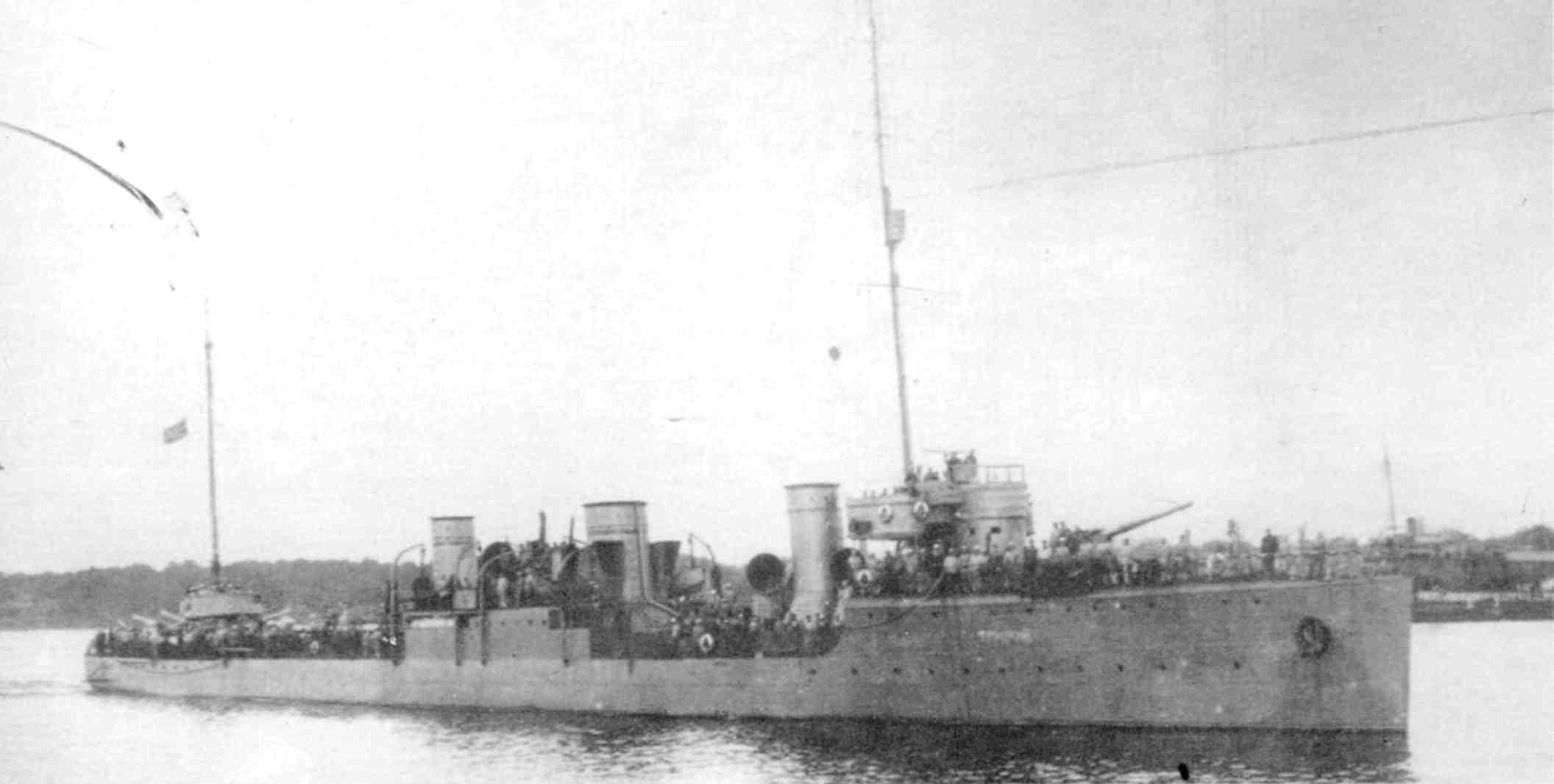 Soviet destroyer Trotskii.